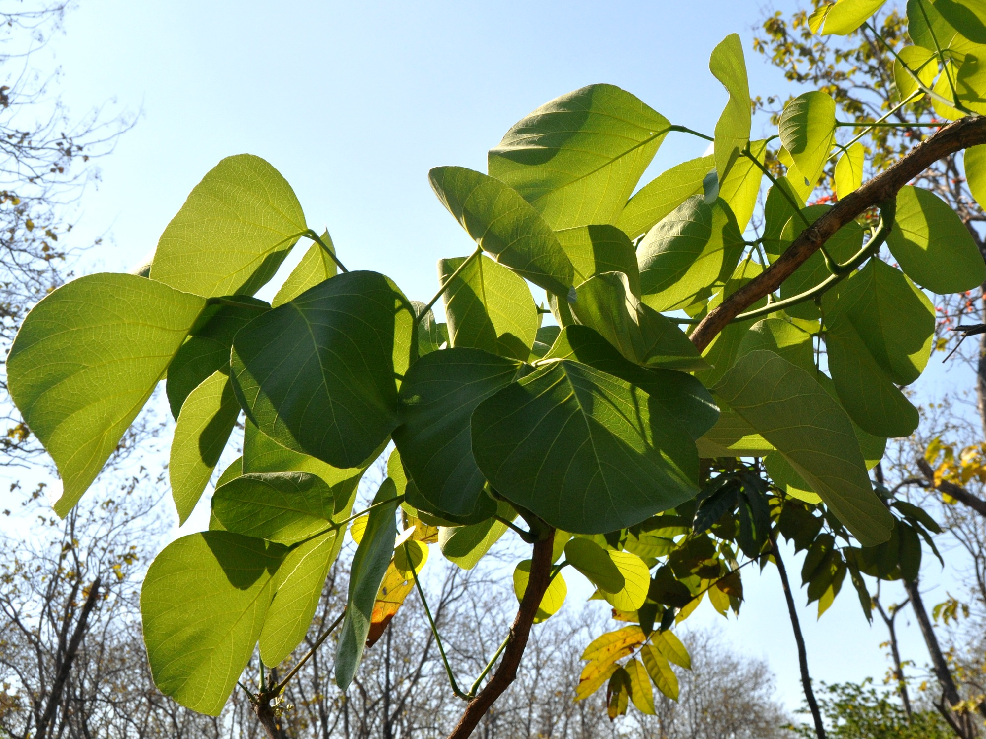 Butea monosperma, twig and leaves. Baluran National Park, East Java, Indonesia.